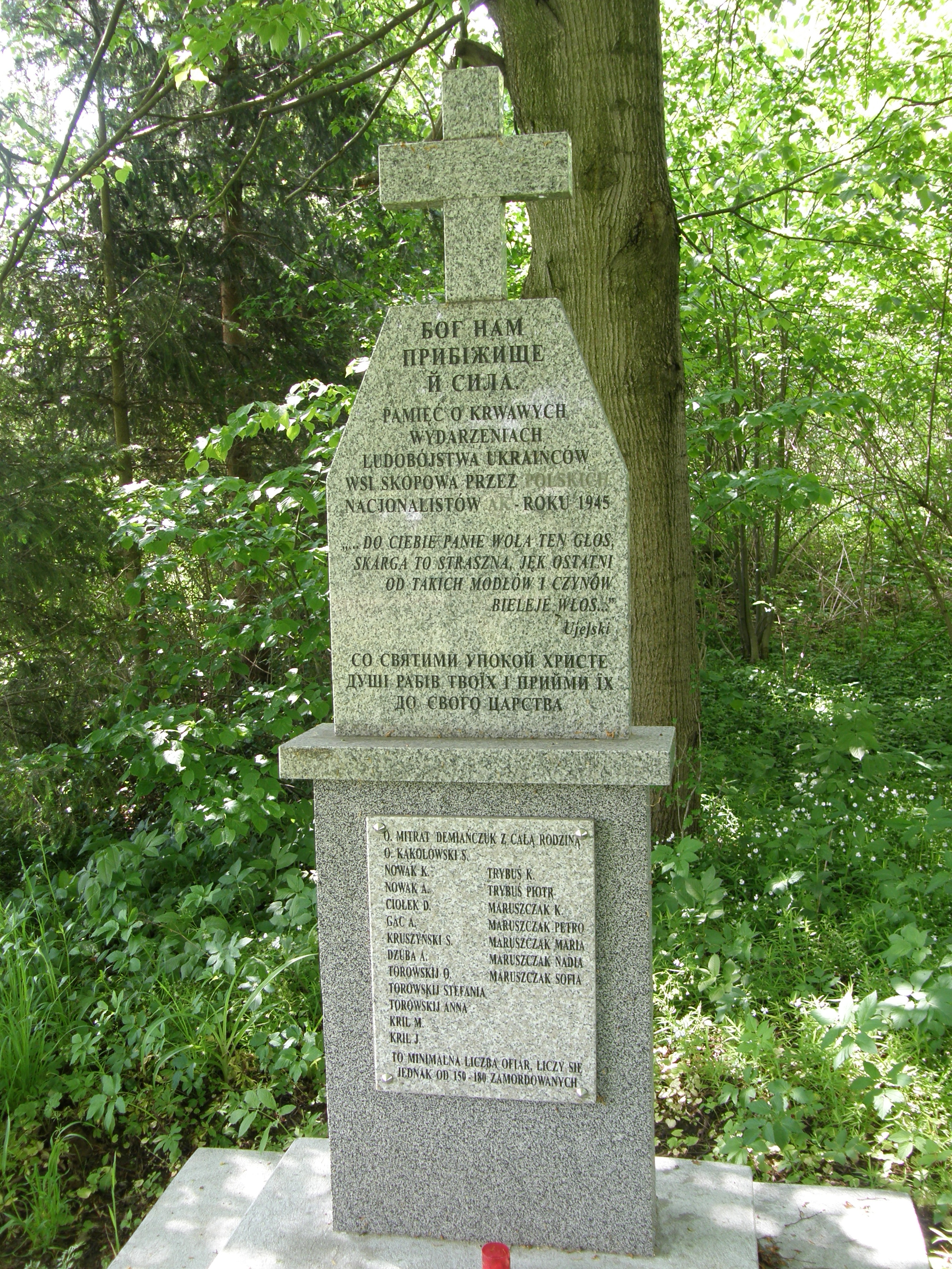 Mogiła Ukraińców pomordowanych w Skopowie przez polskie oddziały partyzanckie.